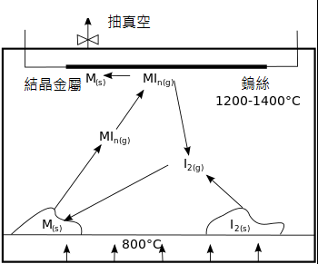 Van Arkel de Boer Process in traditional Chinese